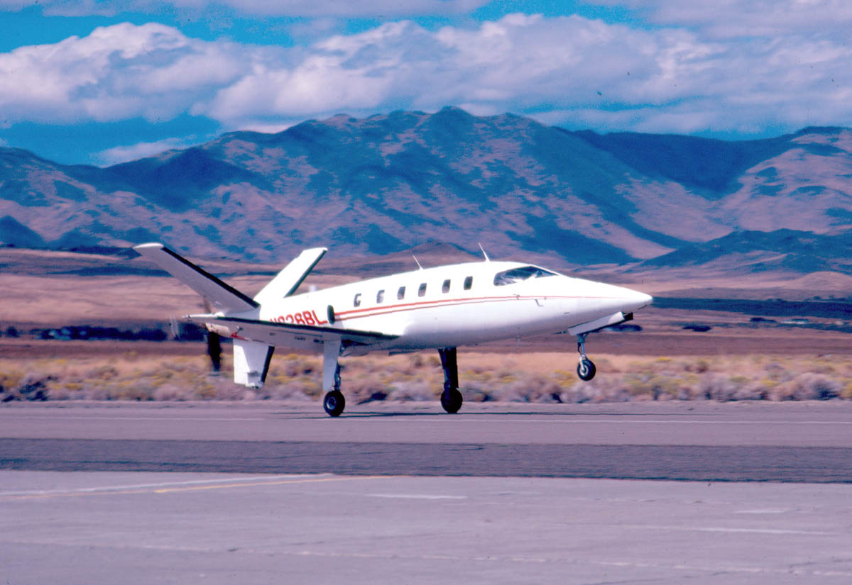 A Lear Fan landing at Reno-Stead